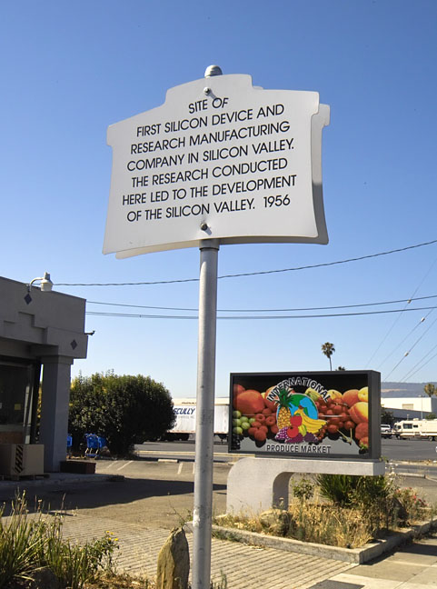 I shot this today of the marker and original Shockley building at 391 San Antonio Rd, Mountain View